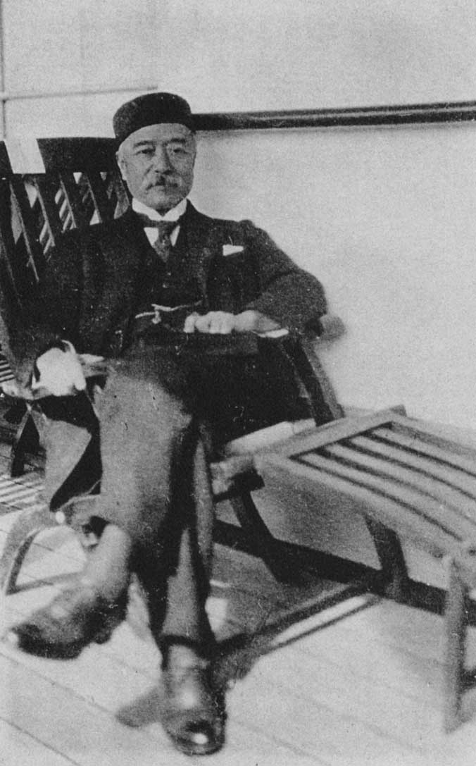 Naibu Kanda (Homeward bound after the Washington Disarmament Conference, early in 1922).